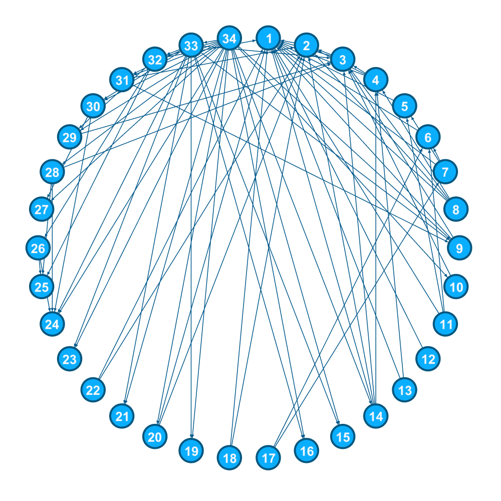 "This is the graphic representation of the social relationships among the 34 individuals in the karate club. A line is drawn between two points when the two individuals being represented consistently interacted in contexts outside those of karate classes, workouts, and club meetings. Each such line drawn is referred to as an edge." Journal of Anthropological Research, Vol. 33, No. 4 (Winter, 1977), pp. 452-473